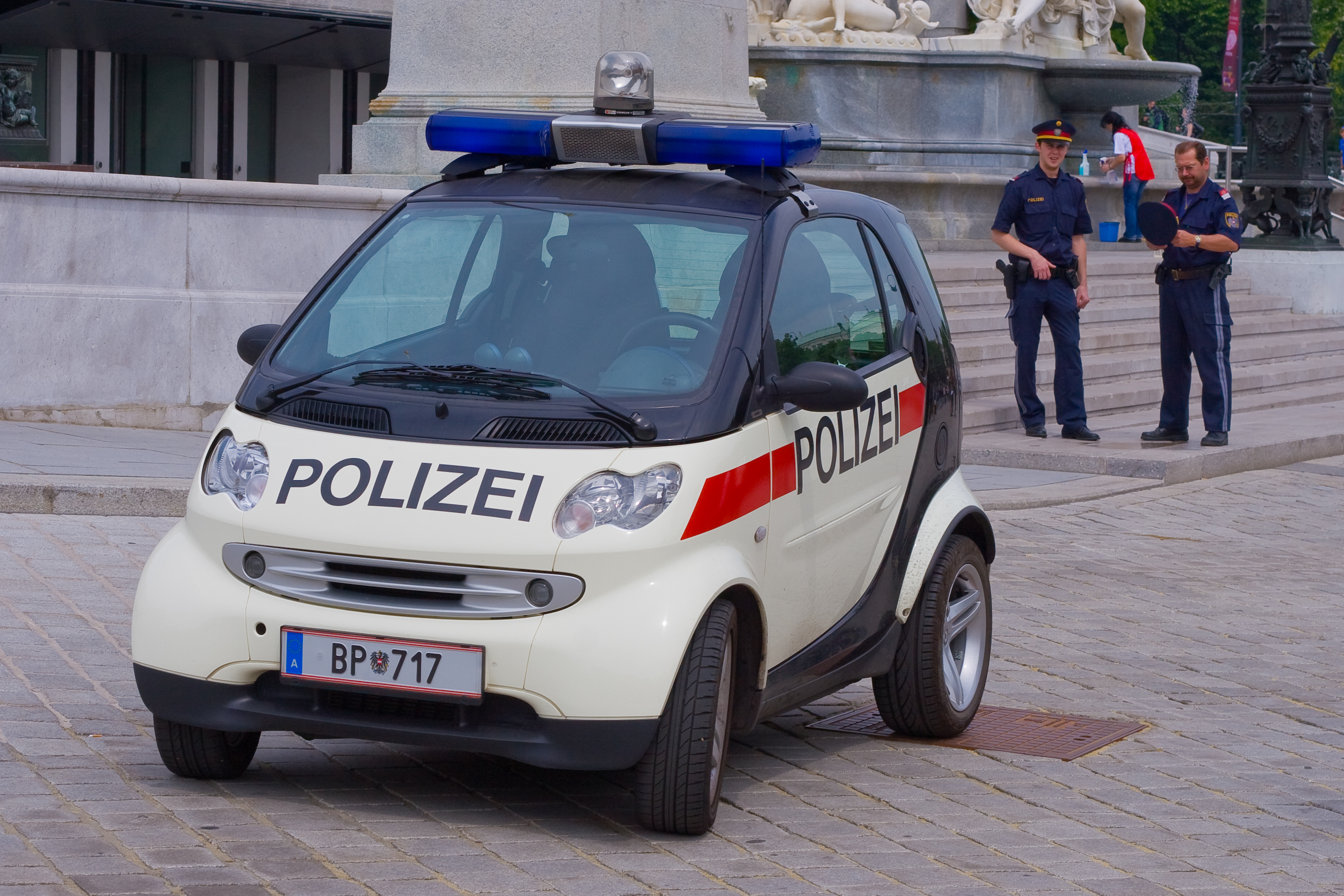 seen in front of the austrian parliament in vienna. note that there are three people in this picture that keep the parliament clean ;-).